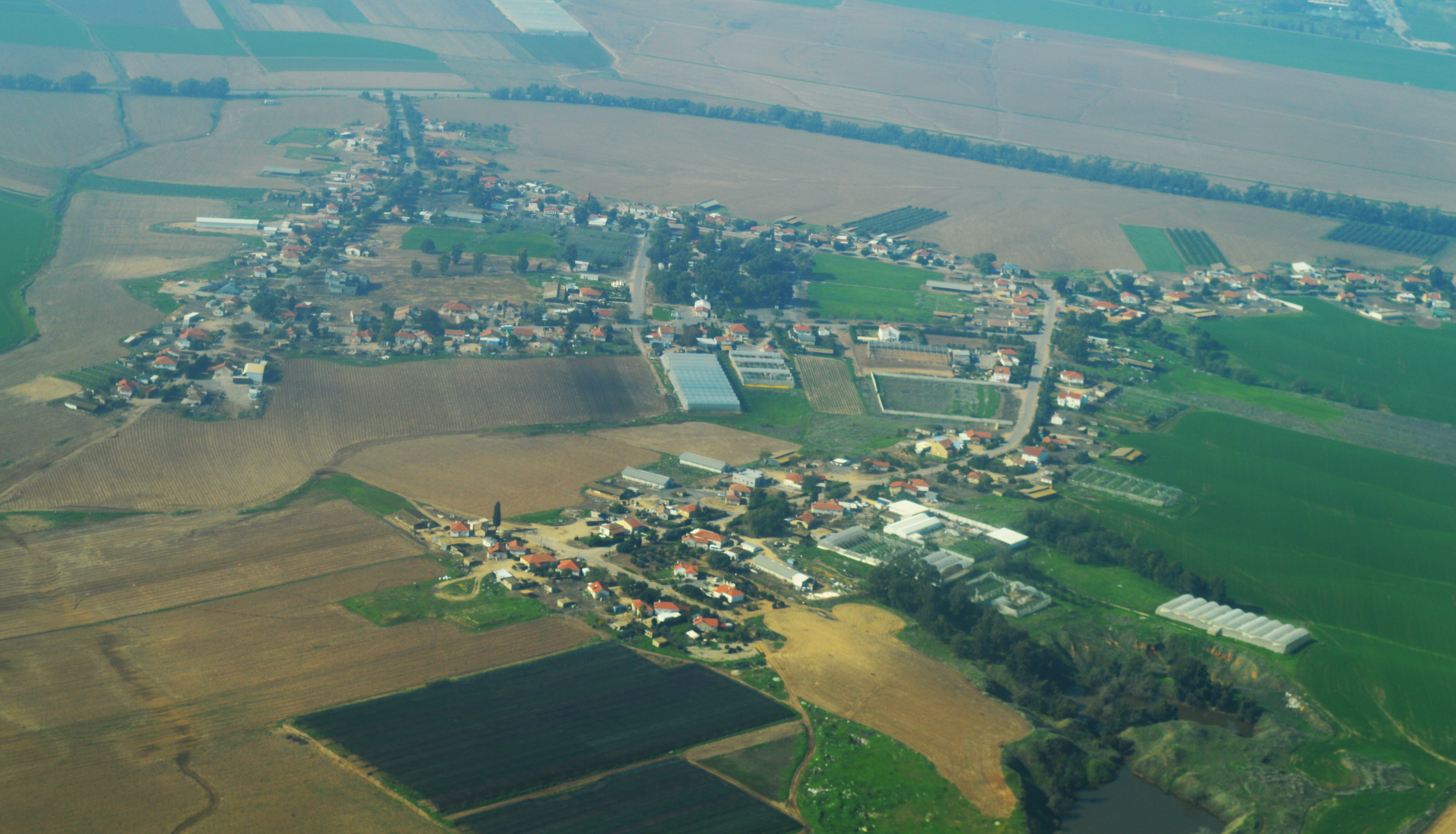 Otzem Aerial View